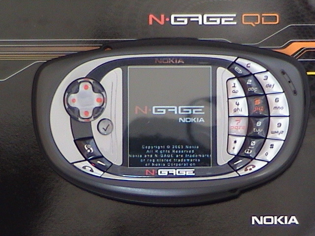 Photograph of N-Gage QD gaming device taken by Manush Madan on 30th March 2006, 13:09 hrs IST.